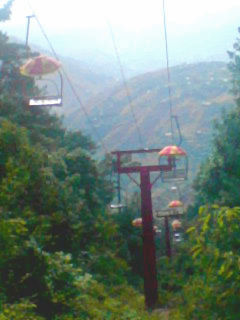 Chairlifts in Murree. Picture taken after climbing to a high spot.